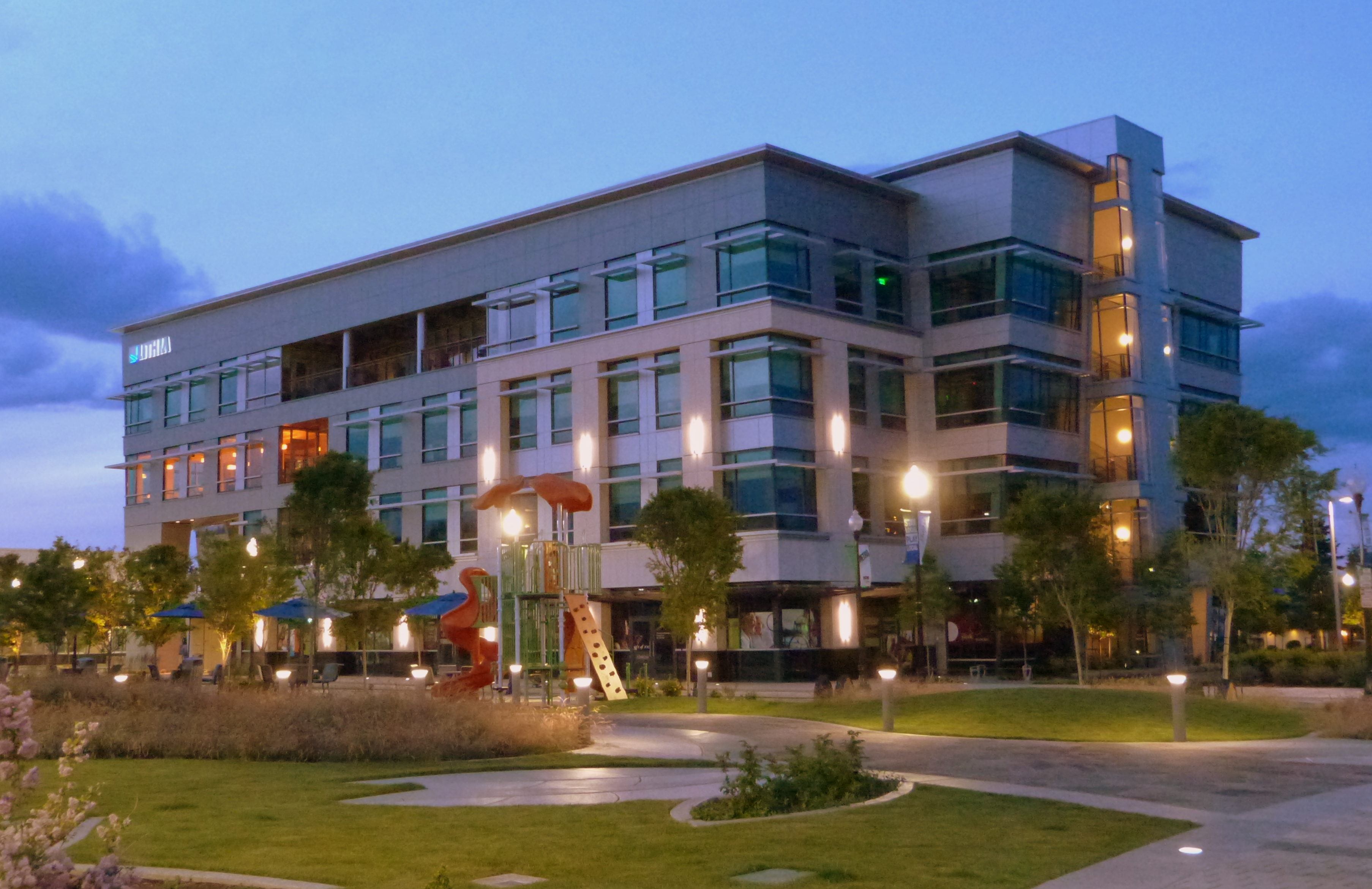 The recently constructed headquarters of Lithia Motors in downtown Medford, Oregon, United States, along with new public park development in the foreground.